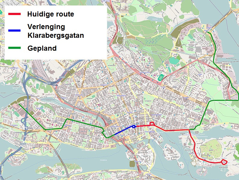 Dutch version of the map of Sparvag City